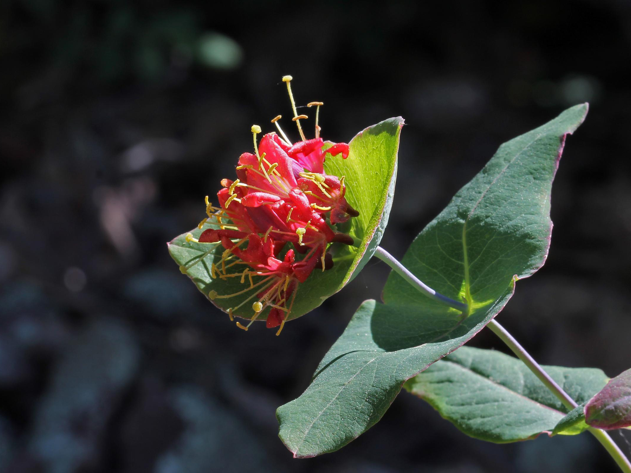 Lonicera dioica L. - limber honeysuckle, glaucous honeysuckle (mid-June, 2013), Gros Cap, Prince Township, Sault Ste. Marie, Ontario, Canada